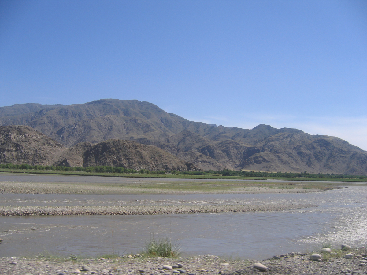 Kunar River in the Bar Kashkot village, Kuz Kunar District, Nangarhar province, Afghanistan پښتو: د کونړ سیند د ننګرهار د کوز کونړ ولسوالۍ په بر کاشکوټ سيمه کې